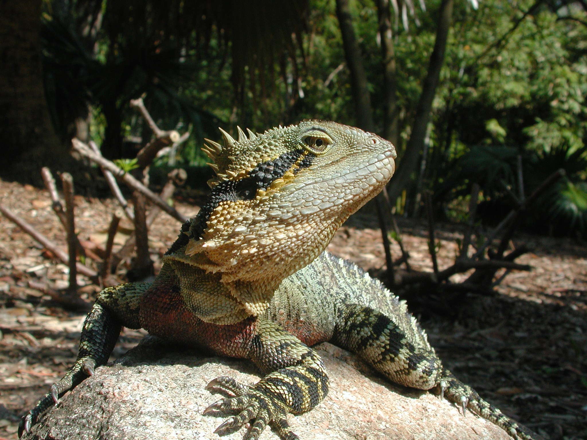 Author: Fritz Geller-Grimm. Source: Brisbane, Australia, 2002. Species: Physignathus lesueurii, Australian Water Dragon